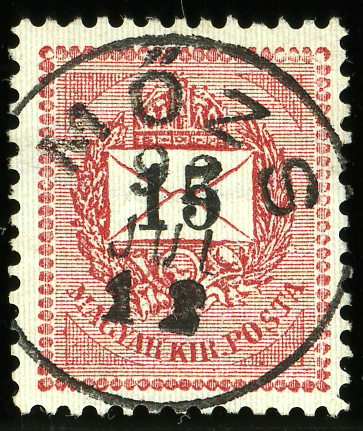 Kingdom of Hungary, 15 kr stamp, issue 1888, cancelled at MÖZS (Tolna County) in 1892 (Hungary).